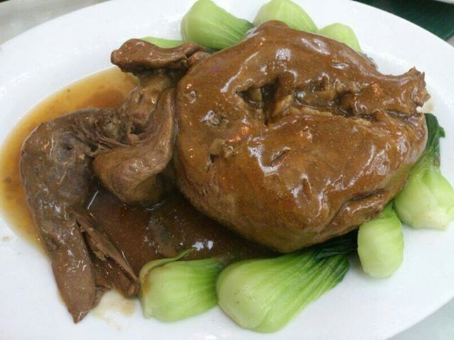 八寶鴨, 中環 蓮香樓, Lin Heung, Aberdeen Street, Central, Hong Kong